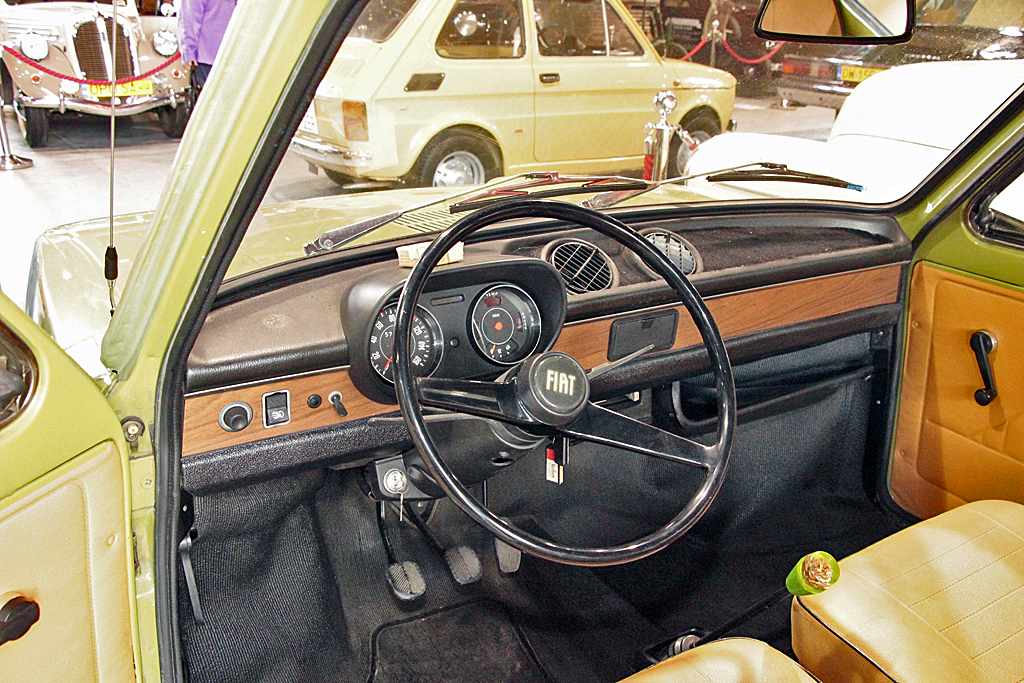 This photo was taken during Automotive Wikiexpedition 2016 set up by Wikimedia Polska Association.You can see all photographs in category Wikiekspedycja motoryzacyjna 2016. English | Polski | +/−